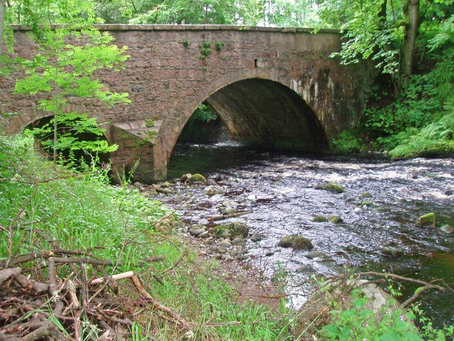 Cowie Water at the A957 (Slug Road) bridge This image is at the extreme northern edge of the Fetteresso Forest, near the historic Ury Estate boundary wall. The photograph is taken looking downstream at the Cowie Water. The photographer is standing at bank edge on the western bank of the Cowie Water. Note the asymmetrical size and shape of the two bridge portals.